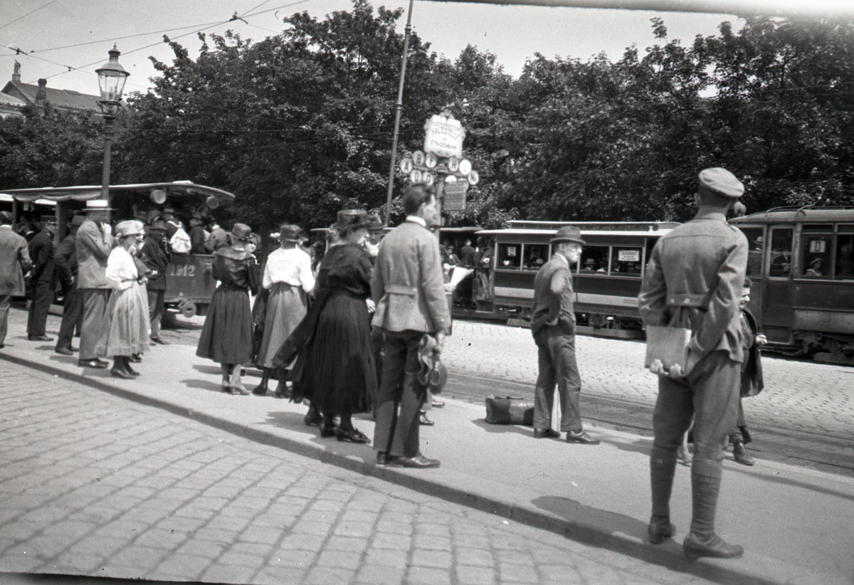 Tram stop in Vienna 1921.